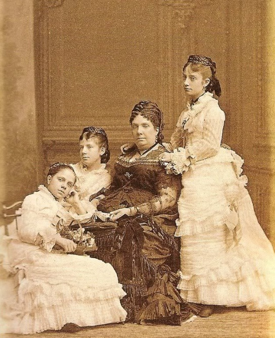 Queen Doña Isabel II of Spain with her three youngest daughters: Pilar, Paz and Eulalia